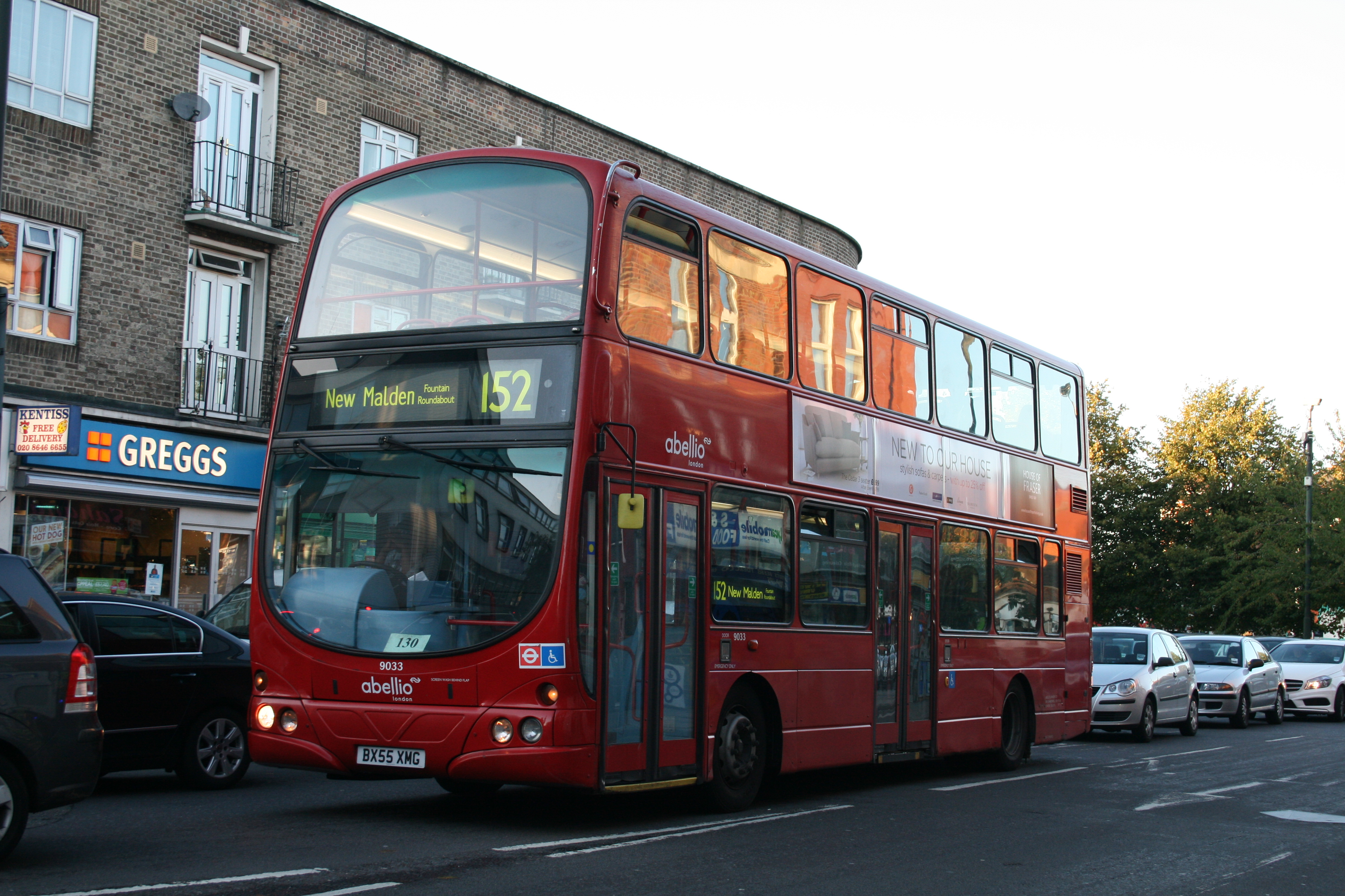 Abellio London 9033 on Route 152, Mitcham